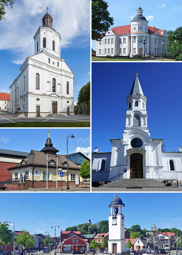 Telse view